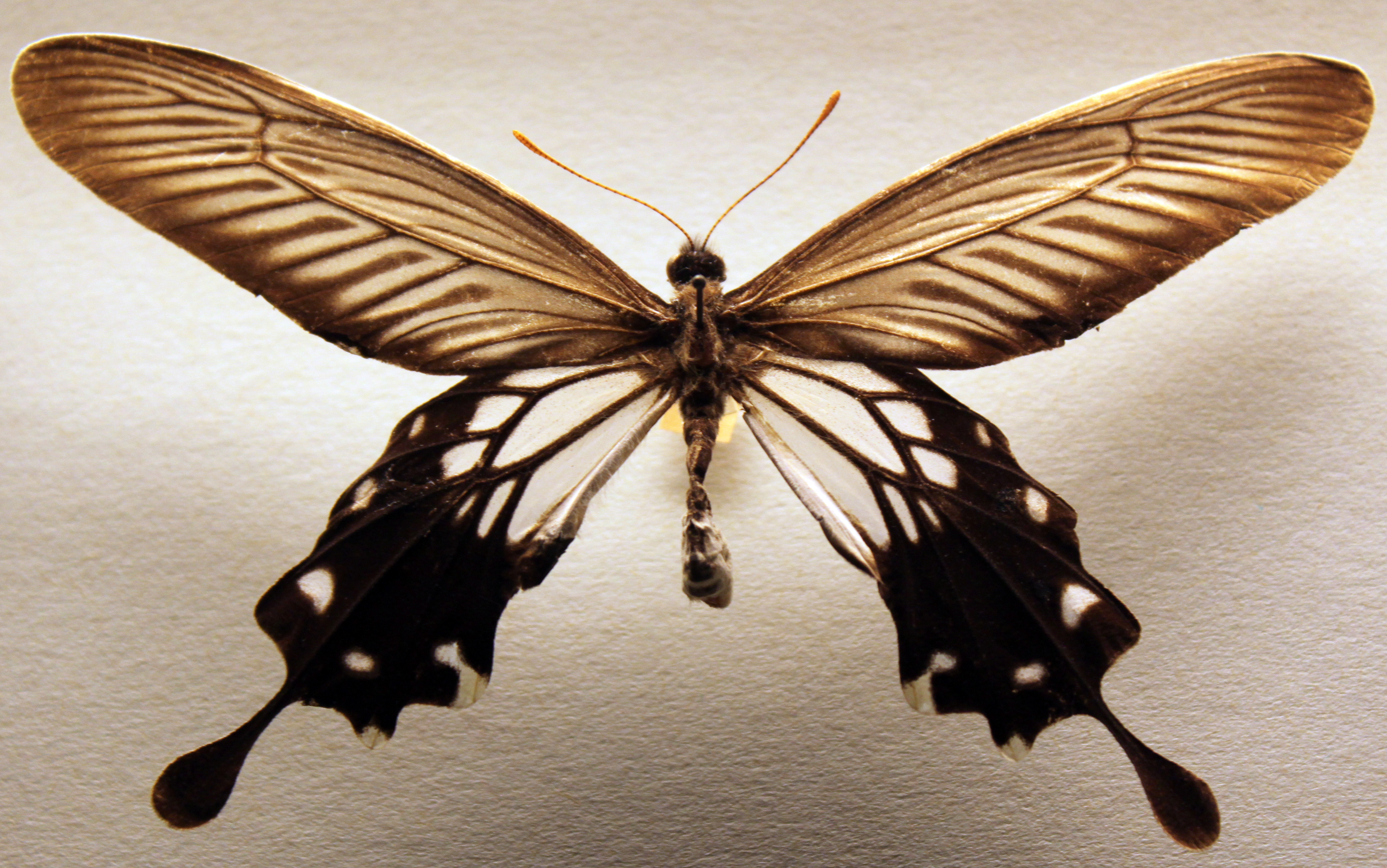 Museum für Naturkunde Berlin: Atrophaneura coon